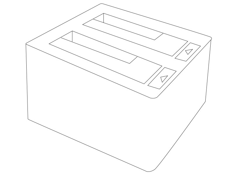 2-Bays Docking Station